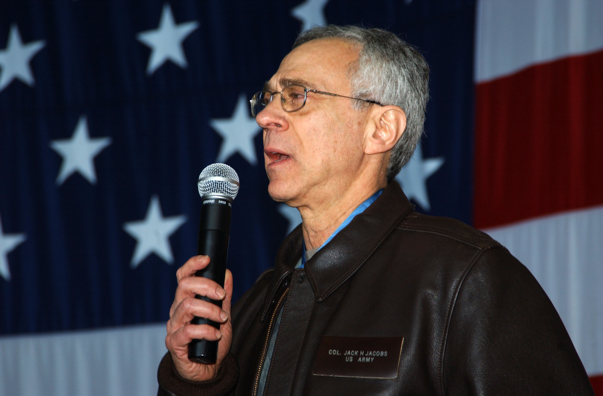 Persian Gulf (Dec. 29, 2005) – Medal of Honor recipient Col. Jack H. Jacobs, United States Army (Ret.), speaks to crew members during a visit to the Nimitz-class aircraft carrier USS Theodore Roosevelt (CVN-71). Roosevelt and embarked Carrier Air Wing Eight (CVW-8) are currently underway on a regularly scheduled deployment supporting maritime security operations.